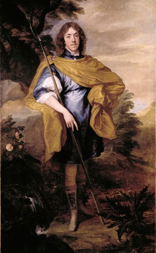 Portrait of Lord George Stuart, Seigneur D'Aubigny (1618-42). Text by Saywell, David; Simon, Jacob, Complete Illustrated Catalogue (National Portrait Gallery, London), 2004, p. 596[1]: The sitter was described by Lord Clarendon in his History of the Rebellion as 'a gentleman of great hopes, of a gentle and winning disposition, and of a very clear courage'. He was typical of the young men who flocked to the King's standard, but he was killed at the Battle of Edgehill in 1642, while leading a troop in the Prince of Wales' Regiment of Horse. His portrait is thought to have been painted by Van Dyck just before the Civil War and may date from 1638, when he secretly married Katherine, daughter of Theophilus Howard, 2nd Earl of Suffolk. It shows him in the guise of a shepherd, languid and rather effete, standing in a landscape with a rock inscribed ME FIRMIOR AMOR - "Love is stronger than I am".